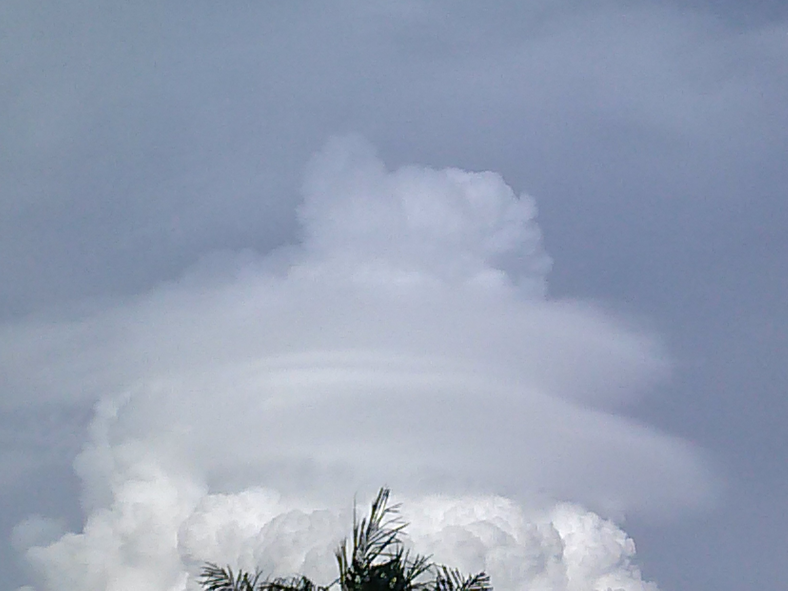 Cumulonimbus cloud covered by two veil-like horizontal strips of clouds.